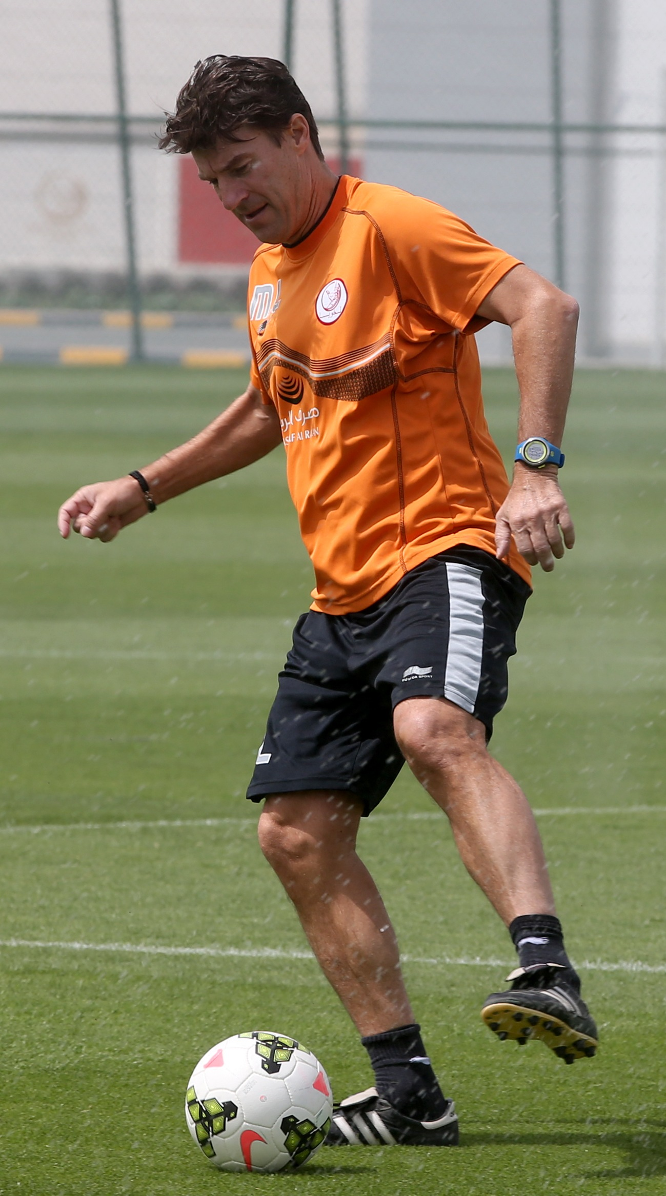 Qatar Stars League side Lekhwiya's coach Michael Laudrup during his team's training session in Doha.